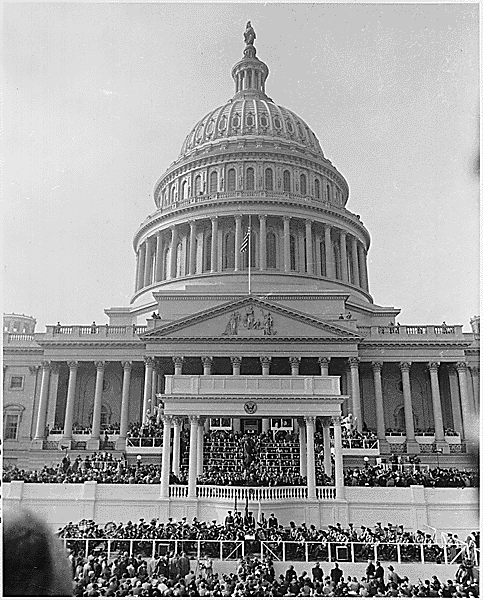 Photograph of the U.S. Capitol and the Inaugural platform during ceremonies marking the Inauguration of Dwight D. Eisenhower as President of the United States.